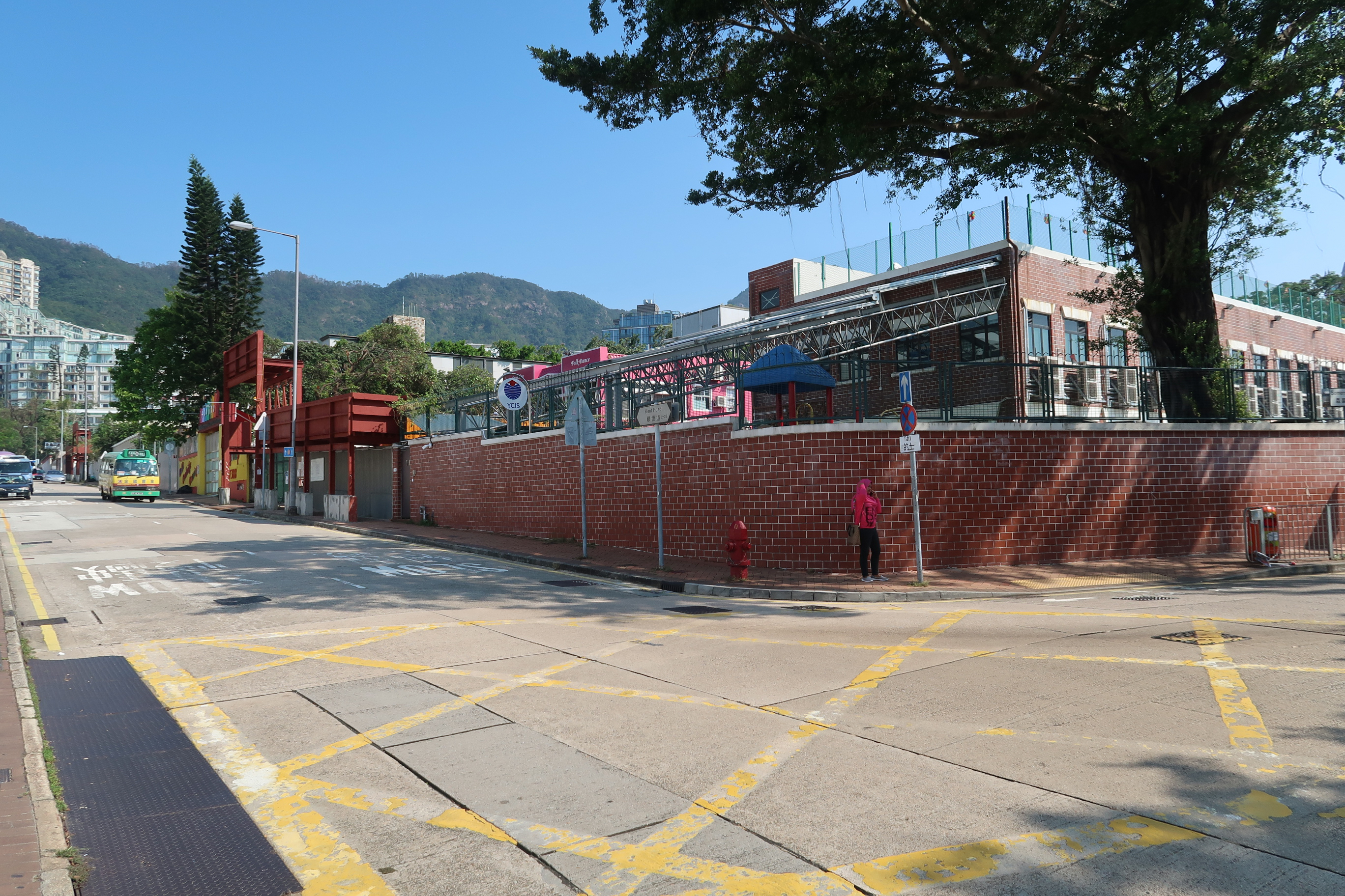 Kent Road